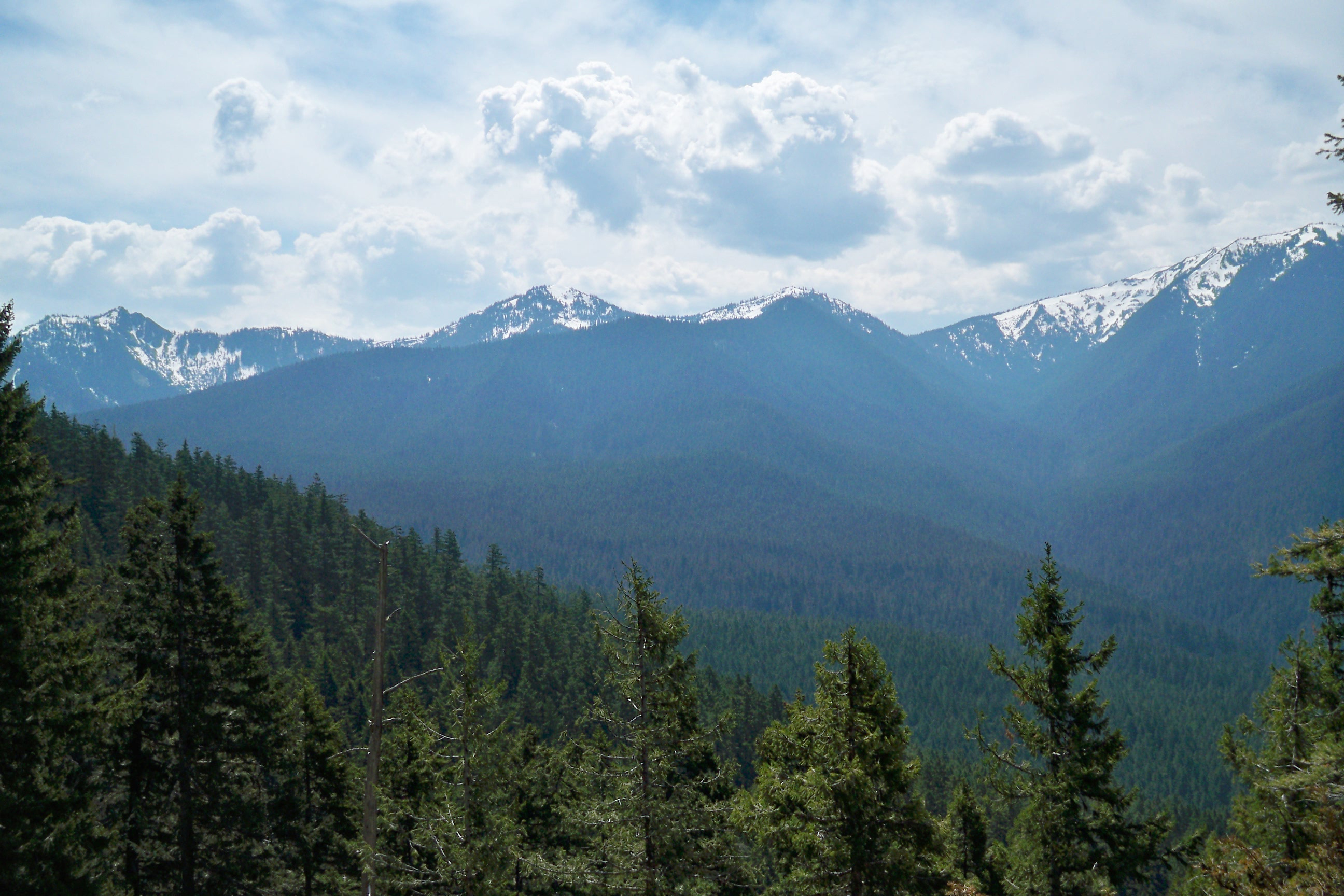 Cumbres del Ajusco National Park — in México, D.F. Part of the Trans-Mexican Volcanic Belt — a principal volcanic mountain system in central México. With Abies religiosa forest